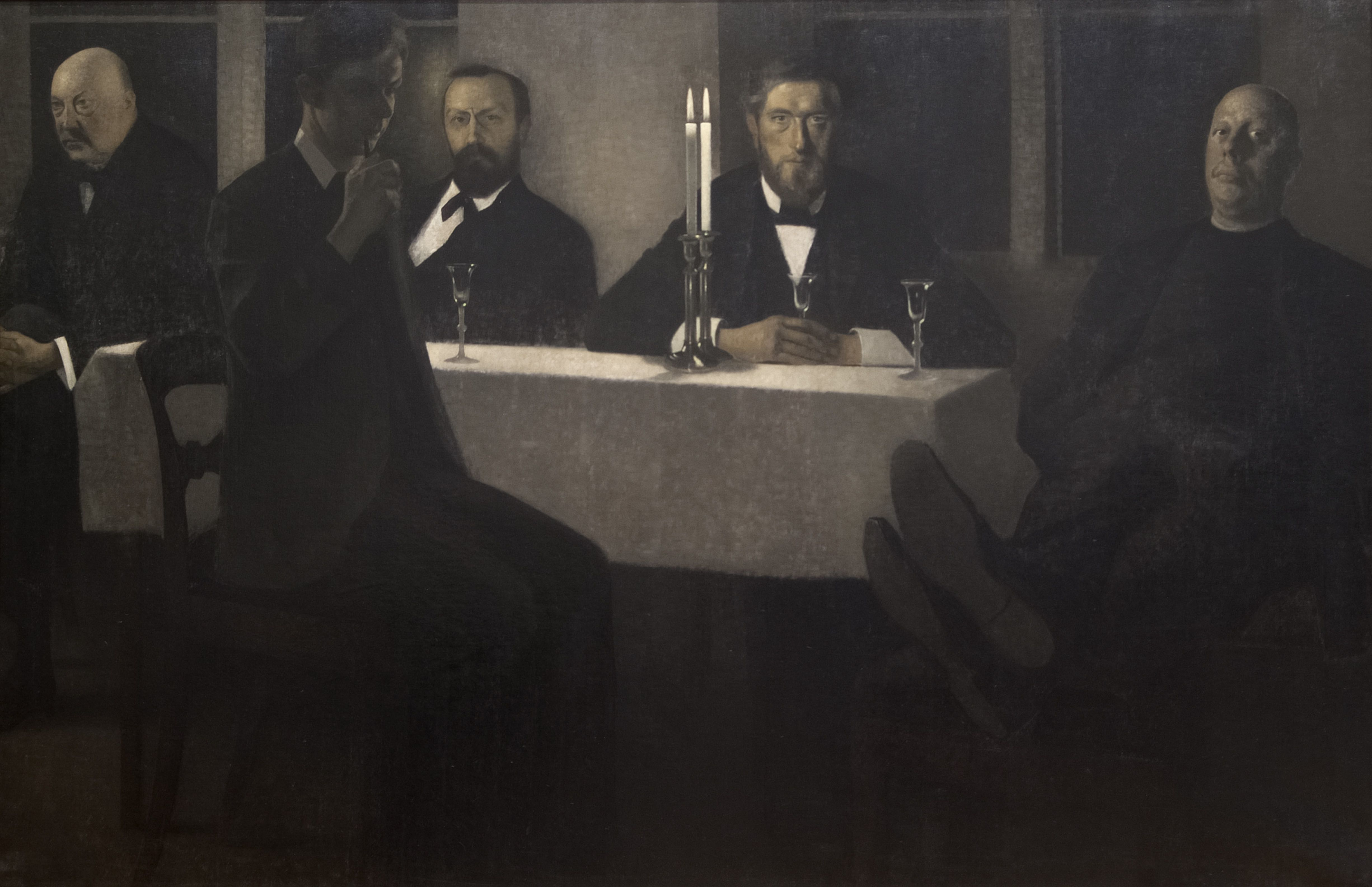 Group portrait of five persons: Architect and designer Thorvald Bindesbøll, art historian Karl Madsen, painter J.F. Willumsen, painter Carl Holsøe and the artist's brother Svend Hammershøj (with pipe).